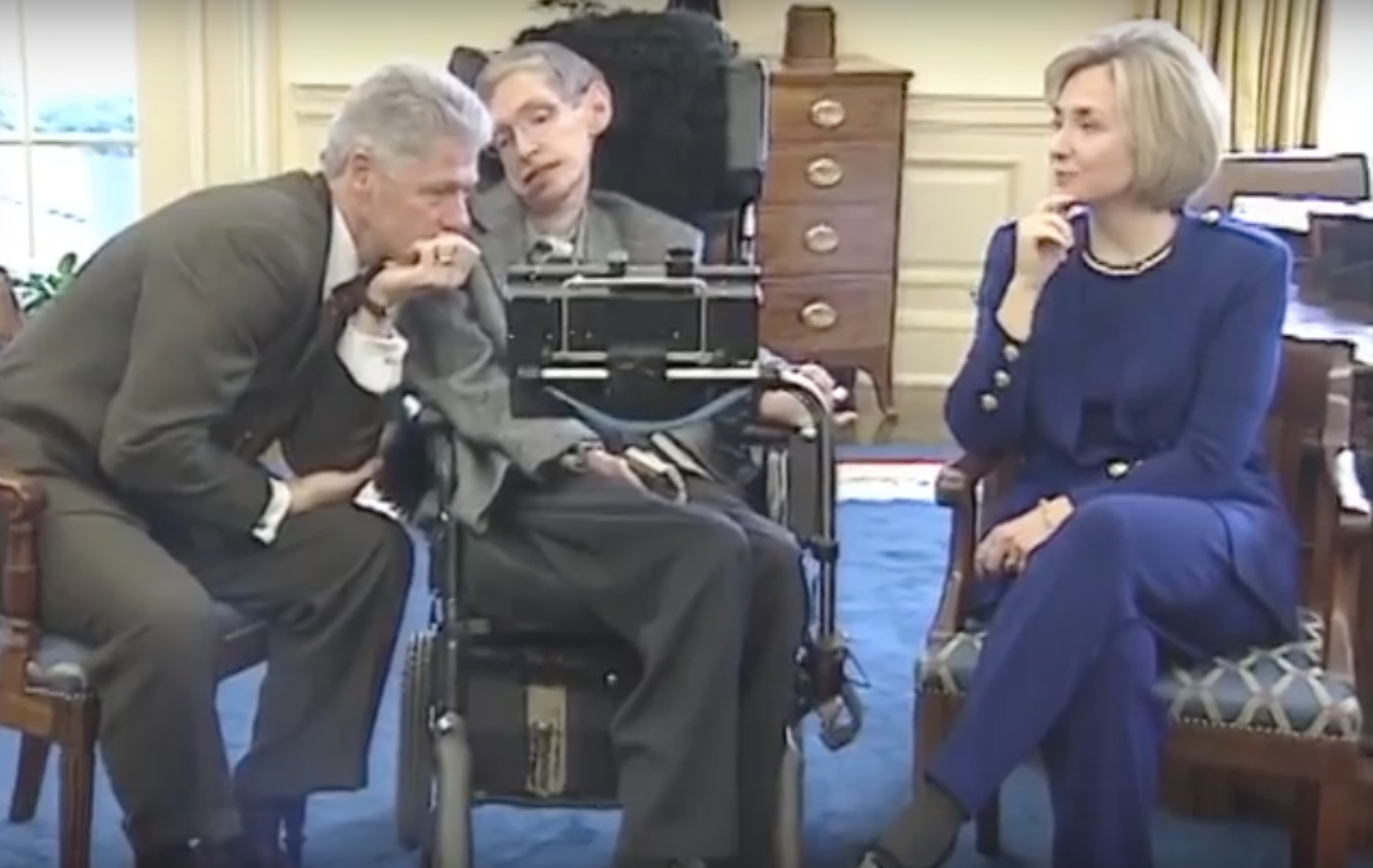 Stephen Hawking and his then-wife Elaine Mason visit the Clintons in the Oval Office March 5, 1998.